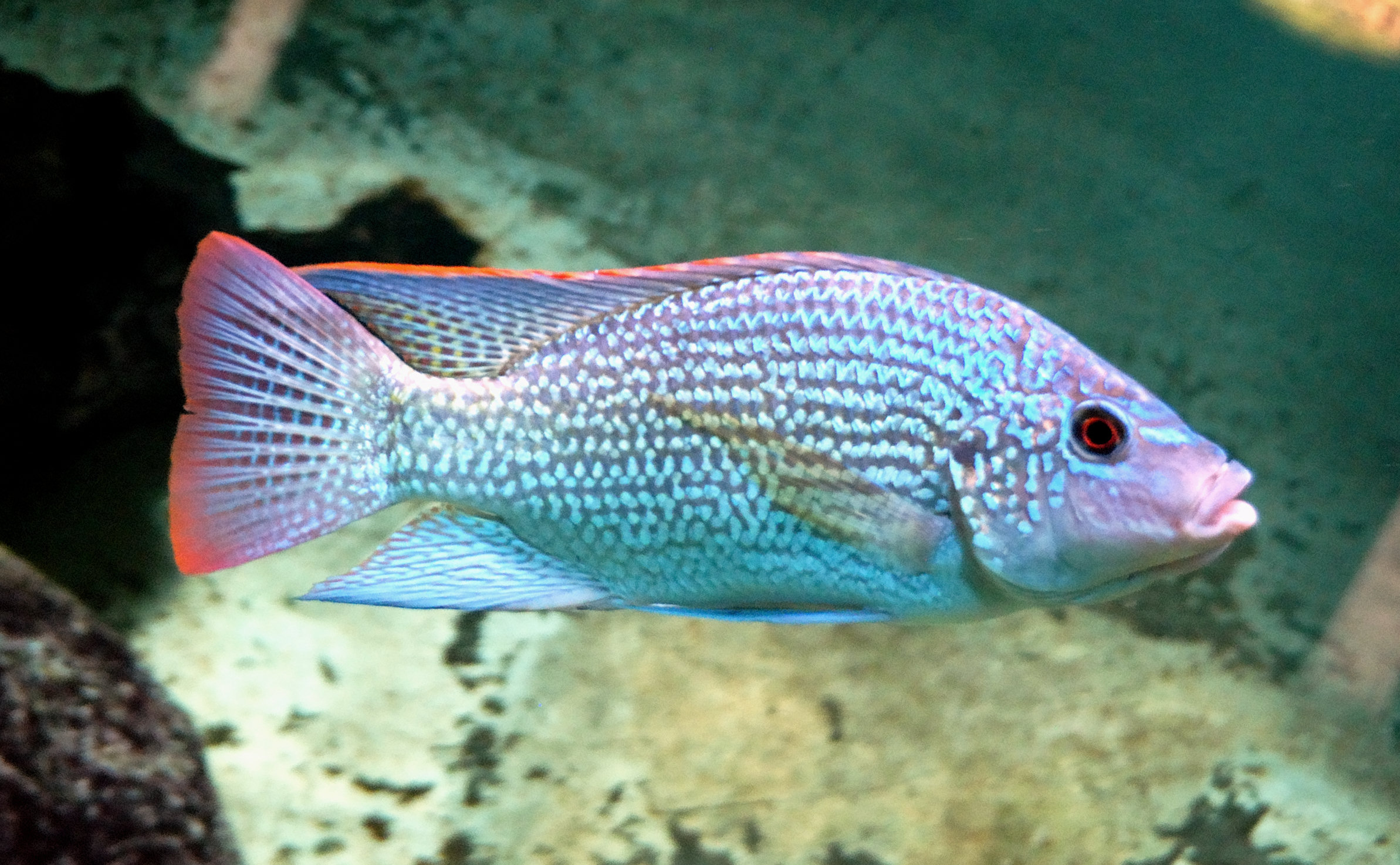 A cichlid from Lake Tanganyika, Oreochromis tanganicae (Günther), photographed at the Berlin Aquarium.